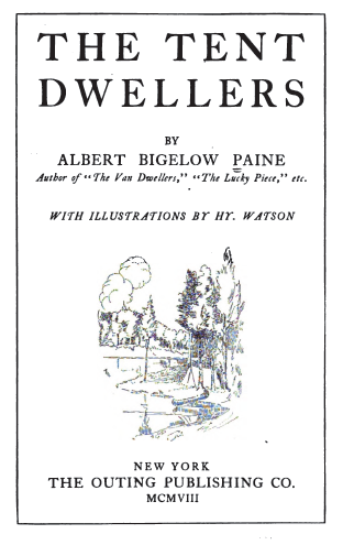 Title page, first edition, The Tent Dwellers by Albert Bigelow Paine, 1908 This work is in the public domain in its country of origin and other countries and areas where the copyright term is the author's life plus 70 years or fewer. This work is in the public domain in the United States because it was published (or registered with the U.S. Copyright Office) before January 1, 1925. This file has been identified as being free of known restrictions under copyright law, including all related and neighboring rights.